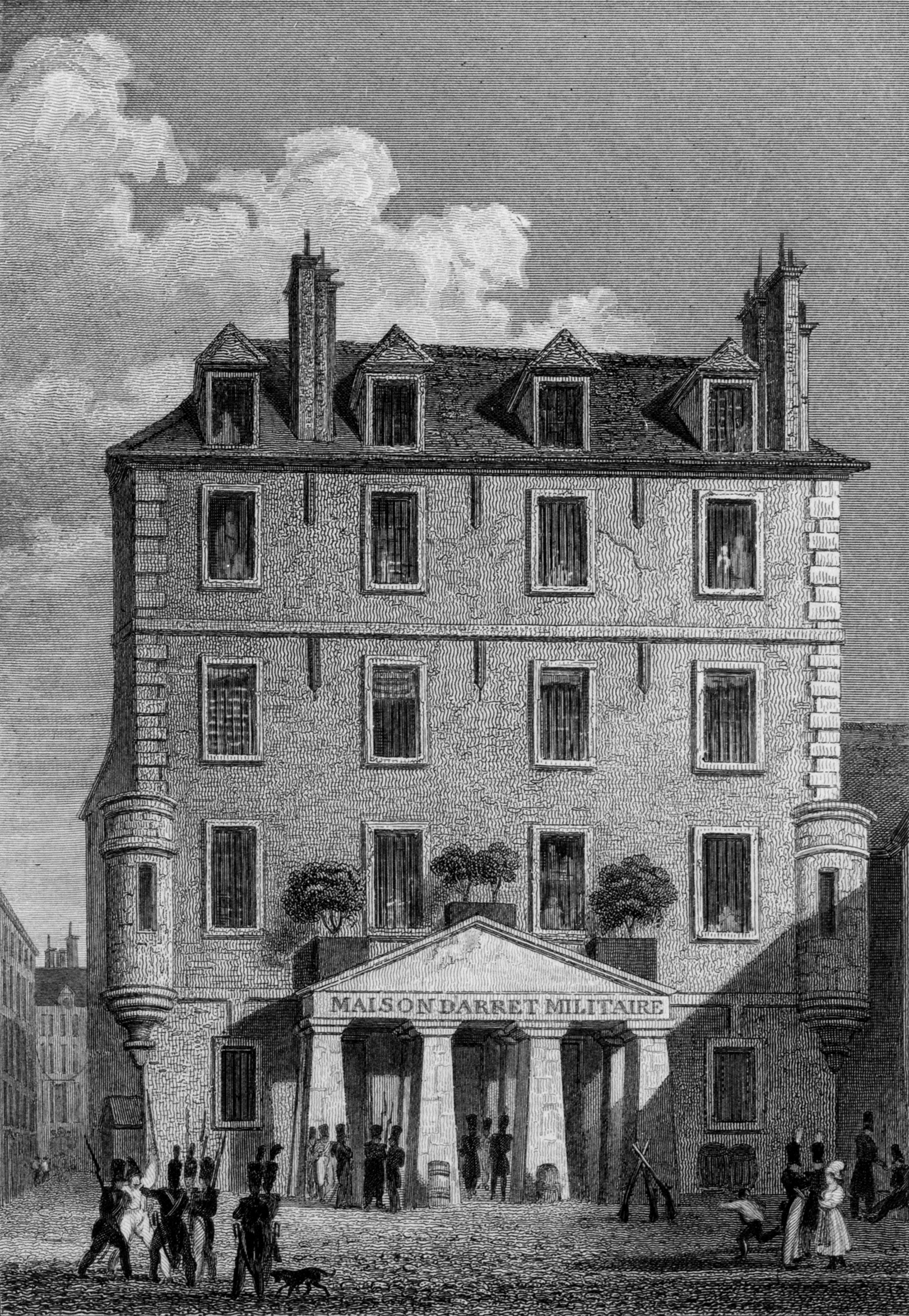 Although the Prison de l'Abbaye Saint-Germain dates as far back as 1522, it is best known for the massacre that took place at its gates in September of 1792; a total of 314 people were killed here at this time during the Reign of Terror. After the Revolution, the building was used solely as a military prison (as shown here), and its main "cell" was located 30 feet below ground and did not allow ample room for a prisoner to stand upright. The prison was eventually destroyed in 1857 when the boulevard Saint-Germain was extended.